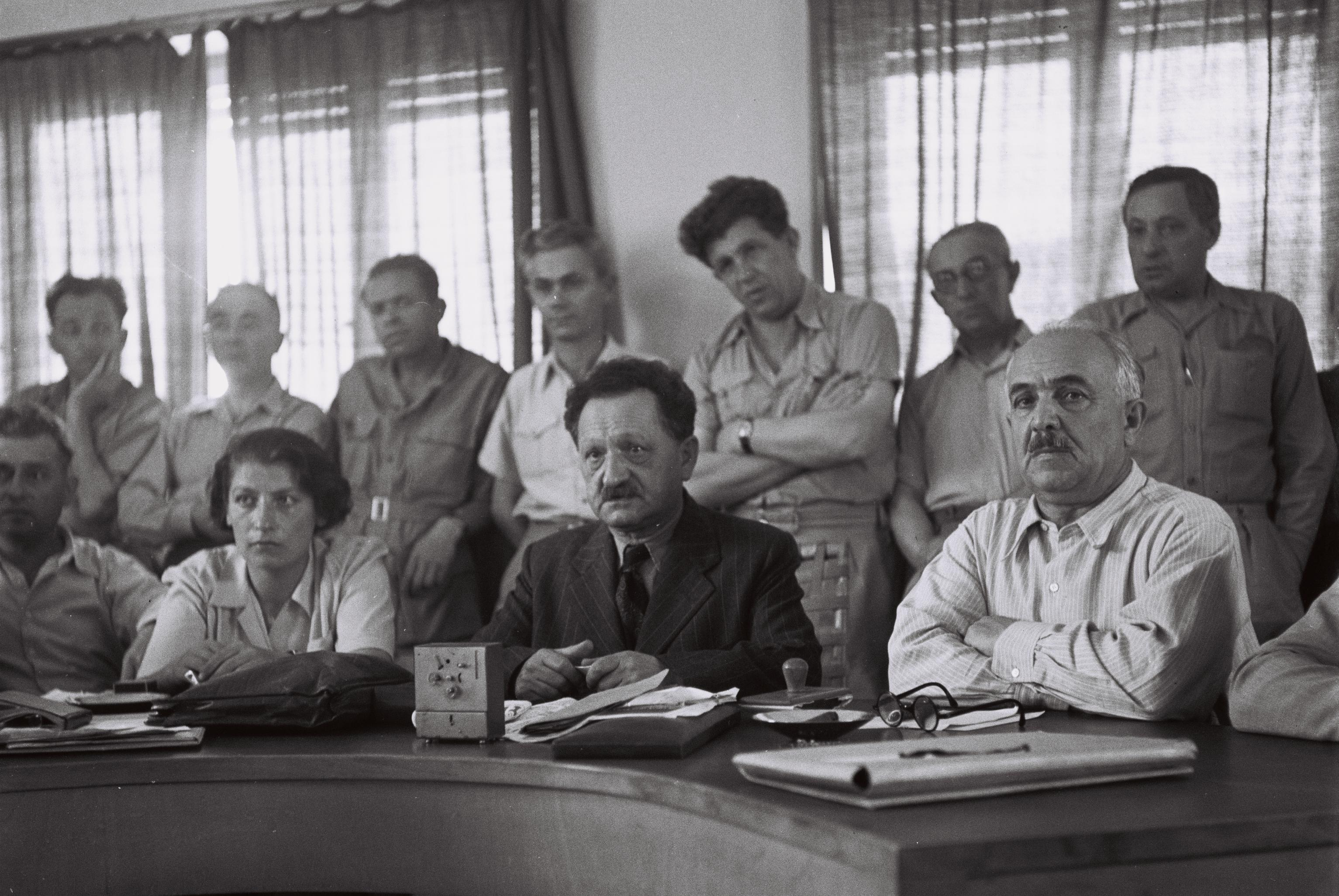 David Remez, Yosef Sprinzak and Cywia Lubetkin